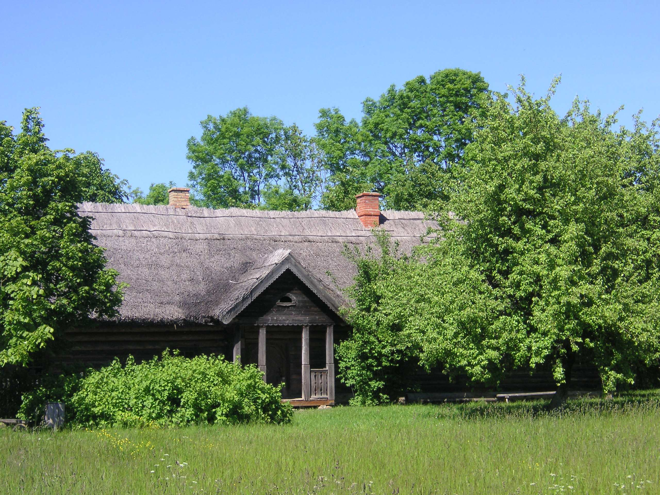 Rumšiškės, Lithuania. Ethnographic open air museum. Author: Wojsyl, 2005